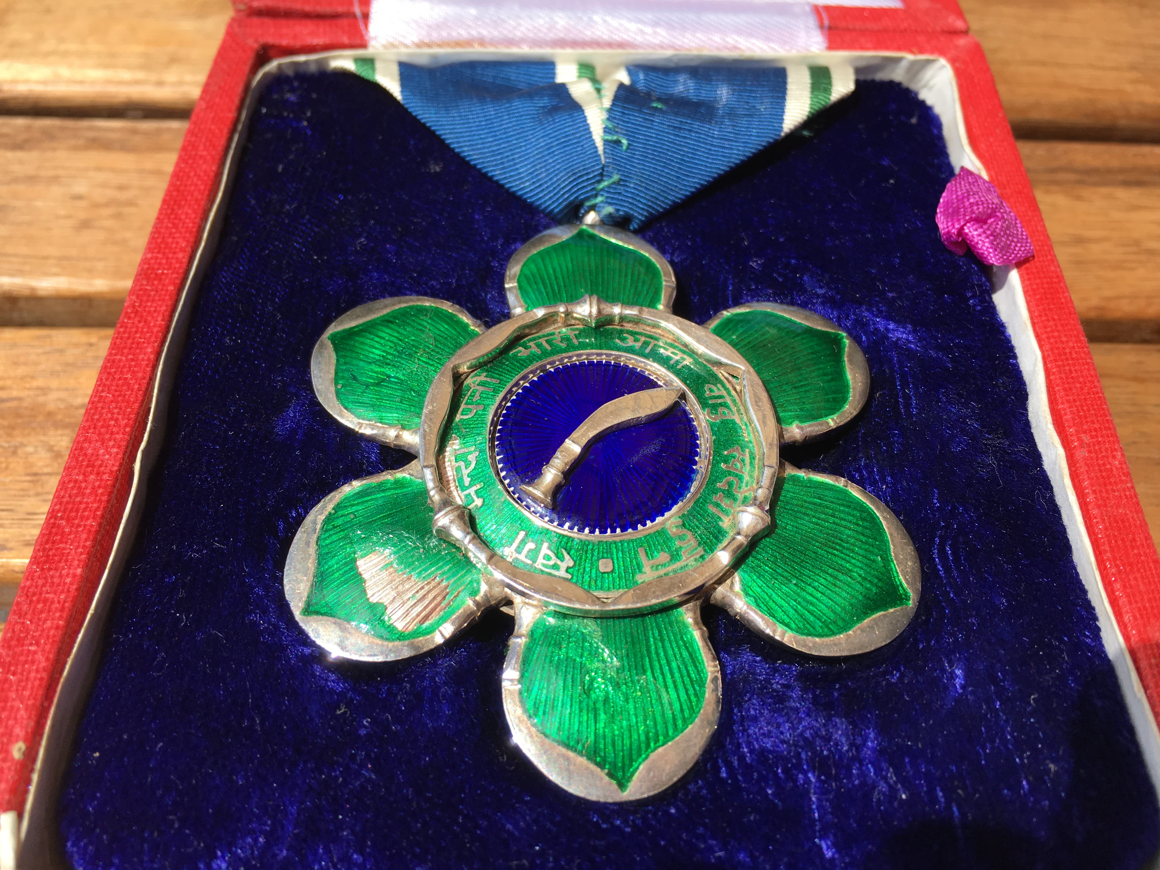 Third Class badge of the Tri Shakti Patta, Kingdom of Nepal. Private collection.